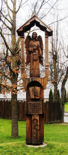 Aleksandras Bendikas monument, Salantai, Kretinga district, Lithuania